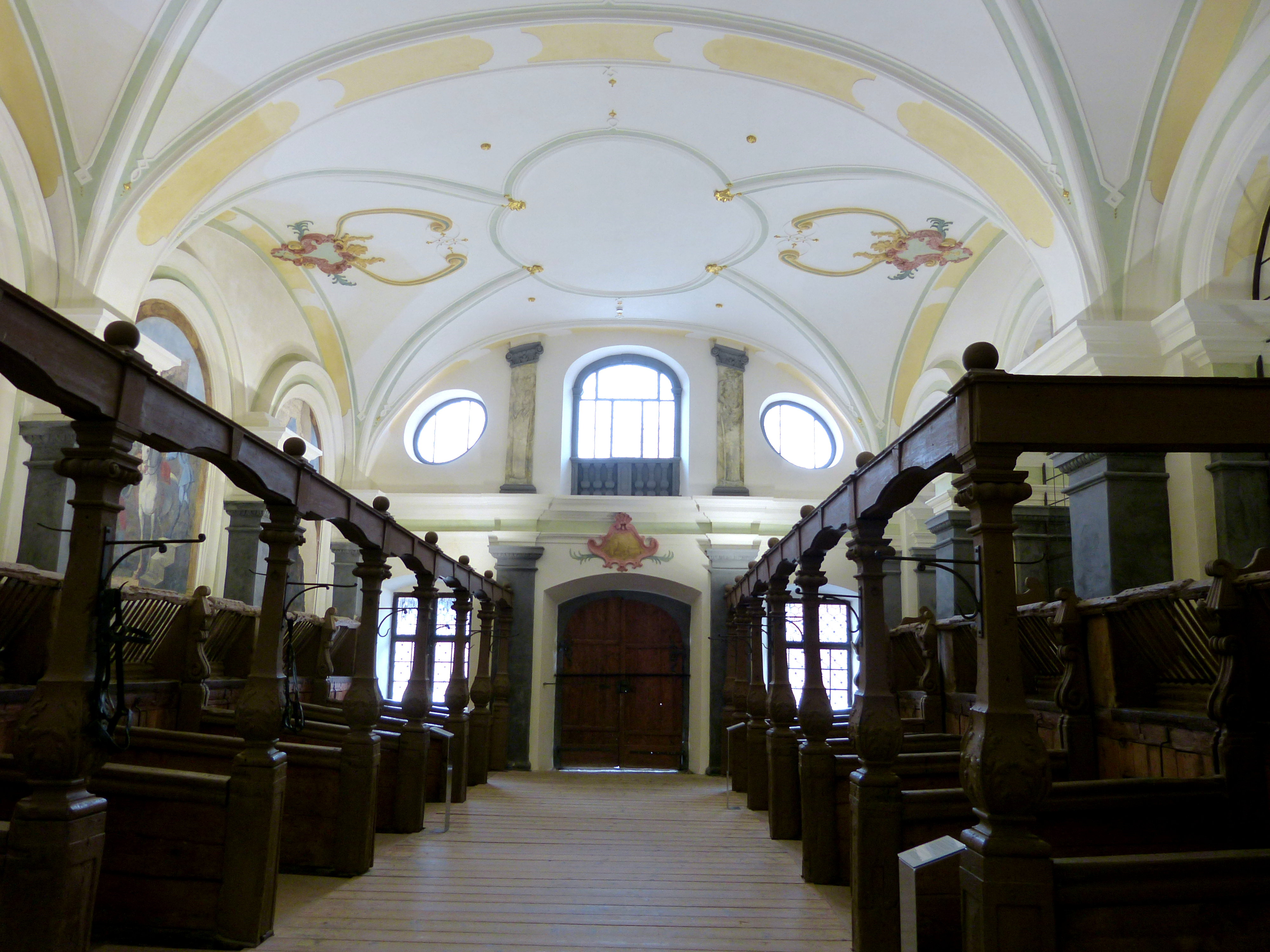 Salem ( Baden-Württemberg ). Monastery stable house (1734-1736) - Left wing.